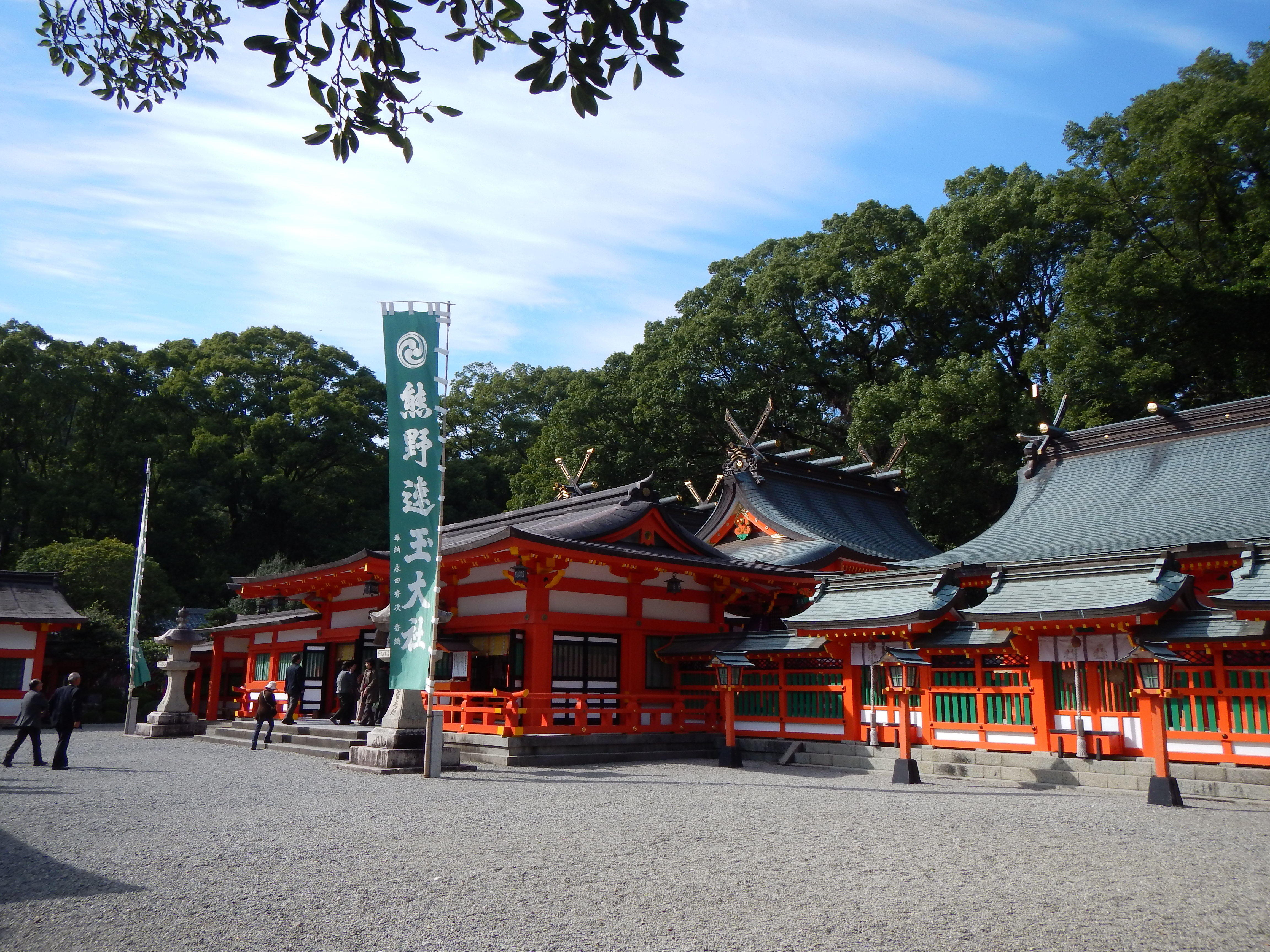 Kumano Kodo pilgrimage route Kumano Hayatama Taisha World heritage 熊野古道 熊野速玉大社